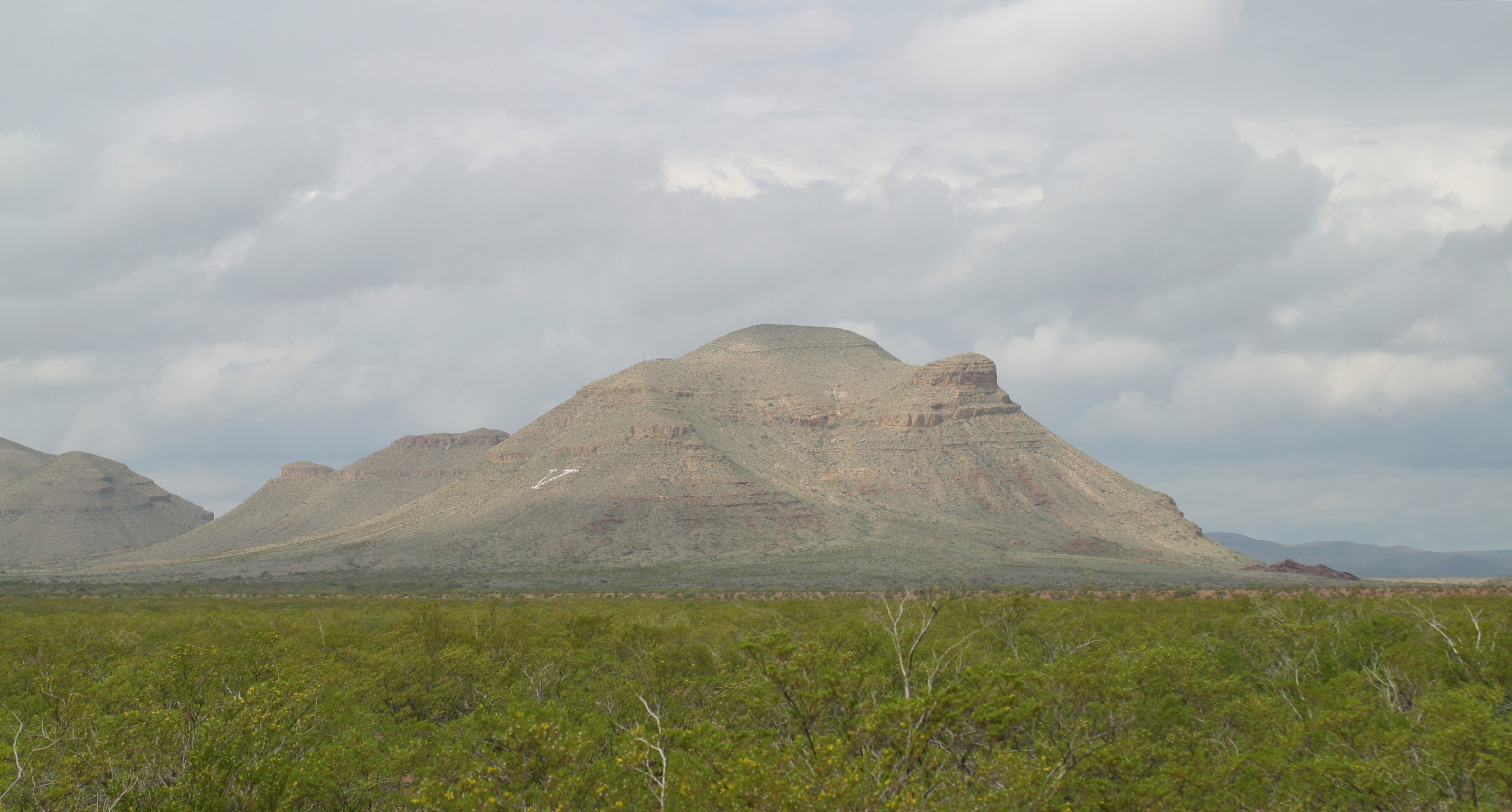 Threemile Mountain with large "V" for Van Horn, Texas.